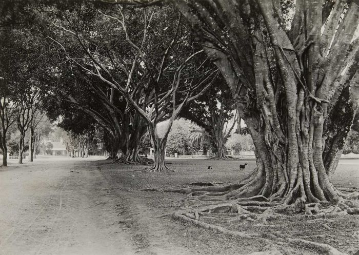 Waringin trees on the alun-alun